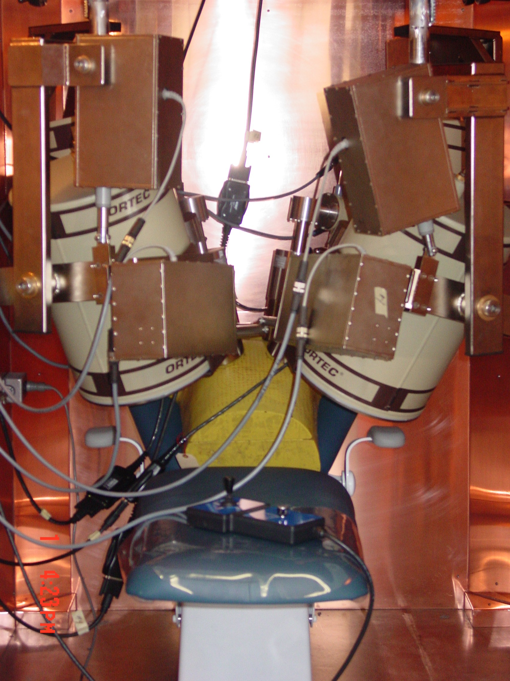 Lung Counter at the Human Monitoring Laboratory